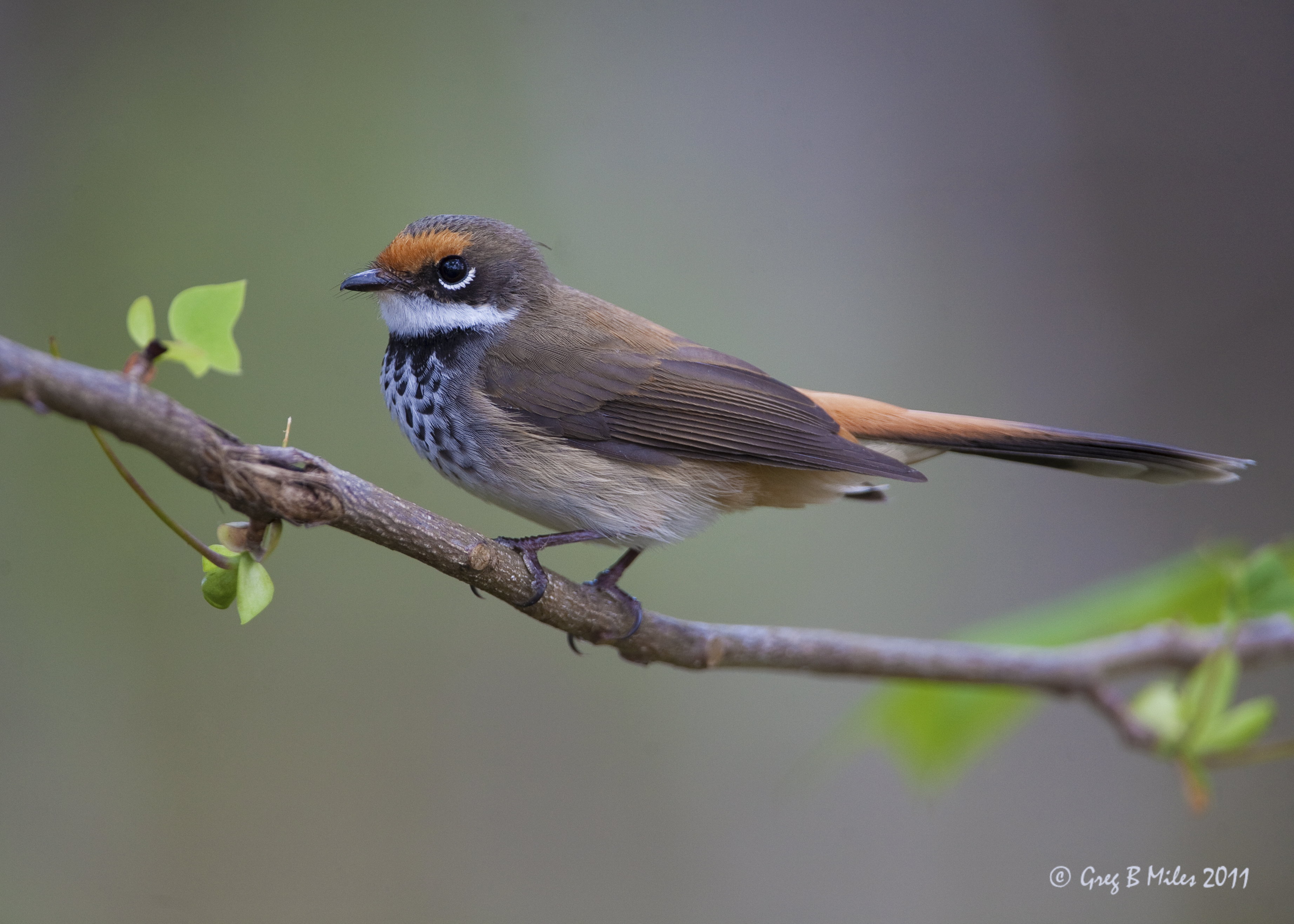 We don't get this species at our place very often, so when one turns up it is a special treat. Especially this one which came back to the same branch continually, forcing me to take dozens of frames!